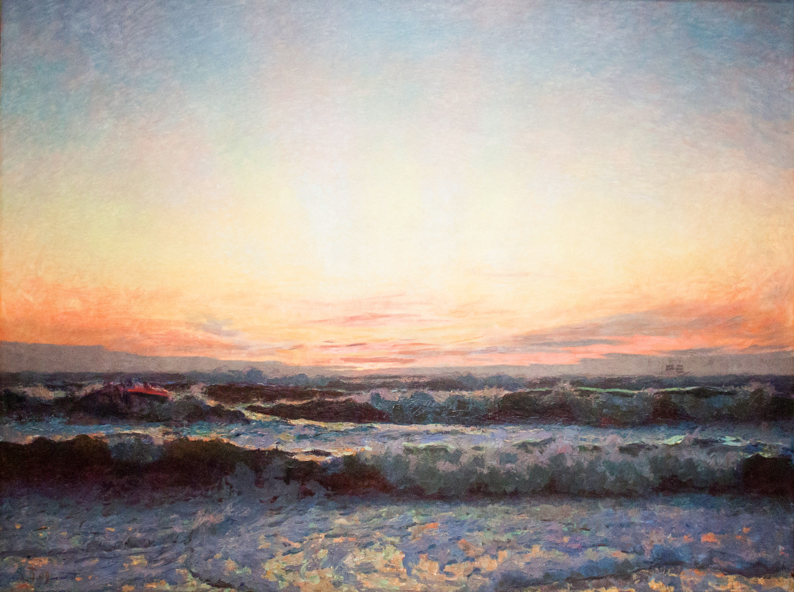 Laurits Tuxen: The North Sea in a storm. After sunset. Højen. 1909.